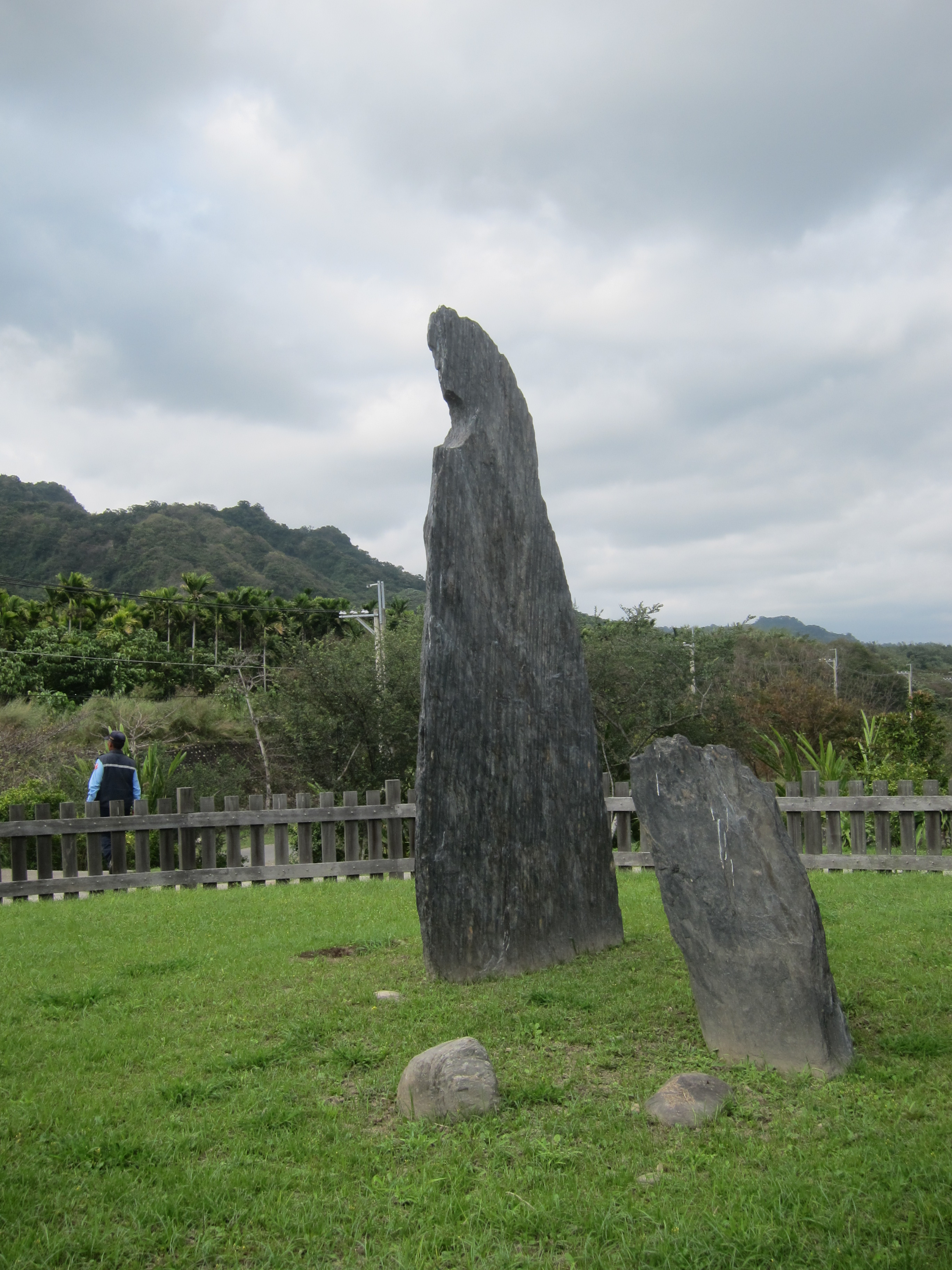 The moon-shaped stone pillar at the entry of the National Park of Prehistory in Taitung, Taiwan.中文（台灣）: 台灣台東卑南文化公園入口處的月形石柱。